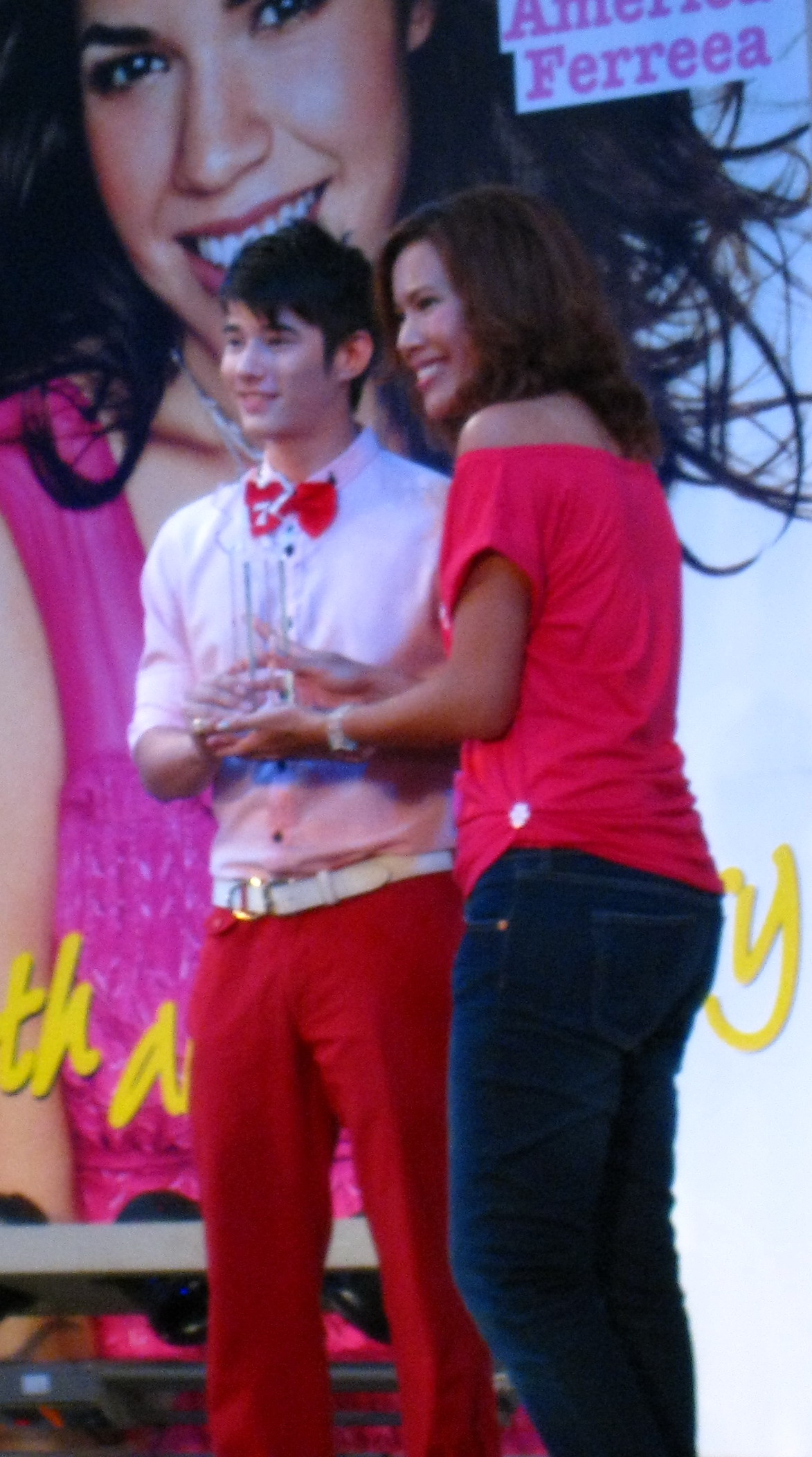 Mario Maurer receiving award from Seventeen Magazine